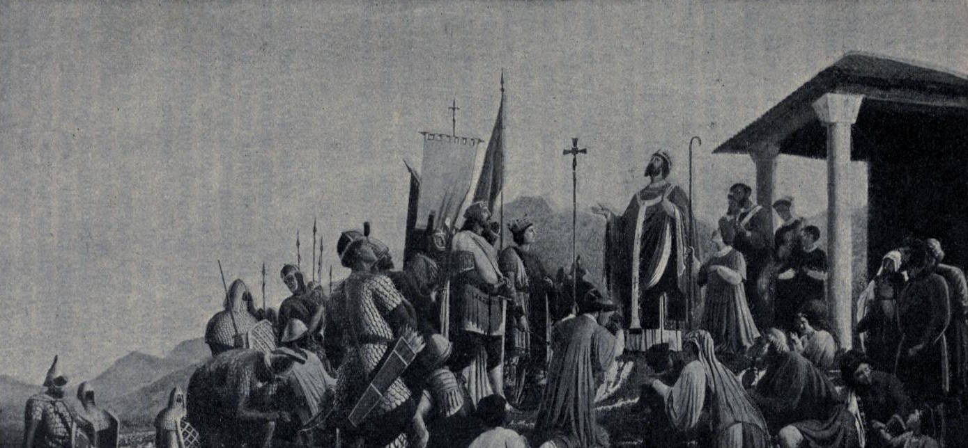 Blessing of Friulli-slavic Army by Aquilean Patriarch Paulinus II before the War aganst the Avars. Photo from the Cathedral of Aquilea. This work is in the public domain in its country of origin and other countries and areas where the copyright term is the author's life plus 70 years or less. You must also include a United States public domain tag to indicate why this work is in the public domain in the United States. Note that a few countries have copyright terms longer than 70 years: Mexico has 100 years, Jamaica has 95 years, Colombia has 80 years, and Guatemala and Samoa have 75 years. This image may not be in the public domain in these countries, which moreover do not implement the rule of the shorter term. Côte d'Ivoire has a general copyright term of 99 years and Honduras has 75 years, but they do implement the rule of the shorter term. Copyright may extend on works created by French who died for France in World War II (more information), Russians who served in the Eastern Front of World War II (known as the Great Patriotic War in Russia) and posthumously rehabilitated victims of Soviet repressions (more information). This file has been identified as being free of known restrictions under copyright law, including all related and neighboring rights.